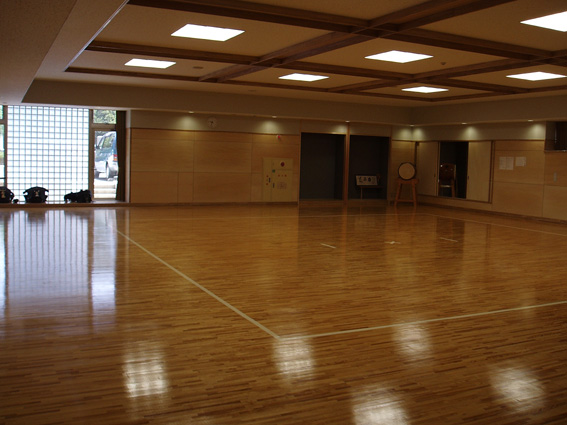 Kendo court of the Chiba Prefectural Inba Meisei High School